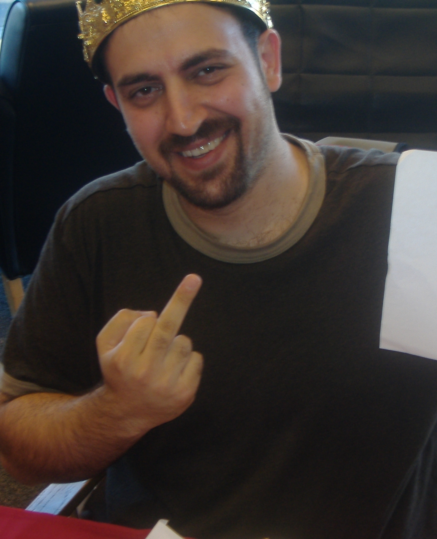 Author George "Maddox" Ouzounian at a book signing in Tacoma, Washington, USA. This is a crop of the original picture to remove what's written on the sign ("De-admin J-K-") to avoid people mistakenly believing it's referring to any Wikimedia Foundation project admin.